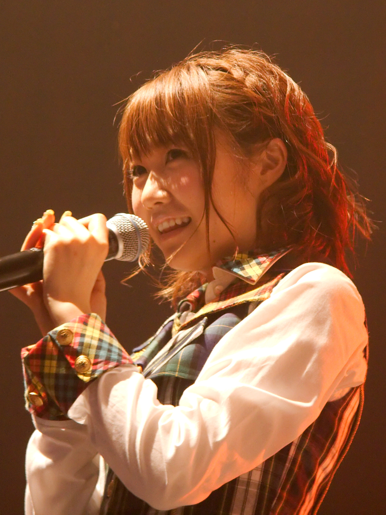 AKB48 live at Japan Expo 2009 (Paris, France).